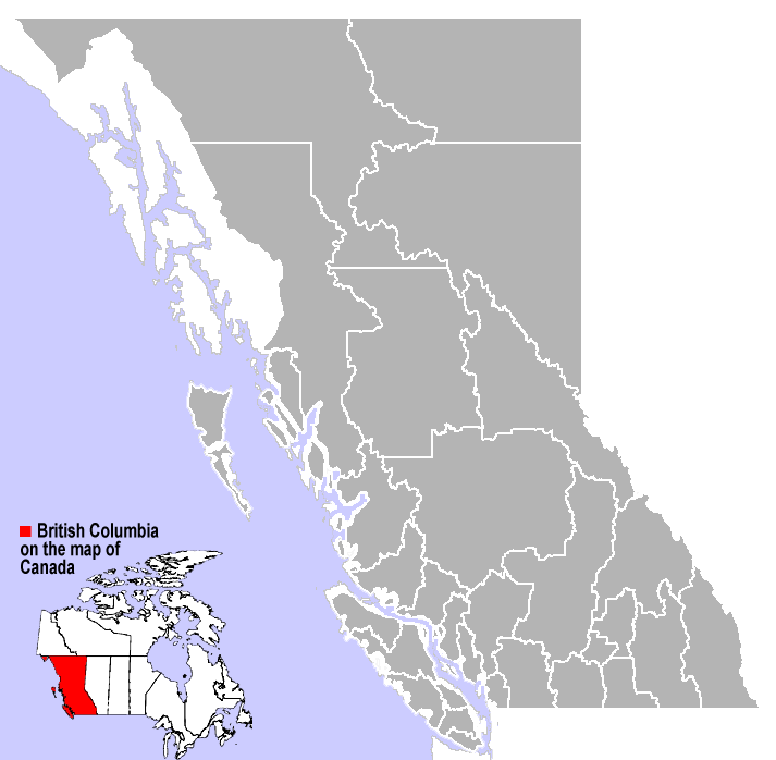 British Columbia - Regional District outlines